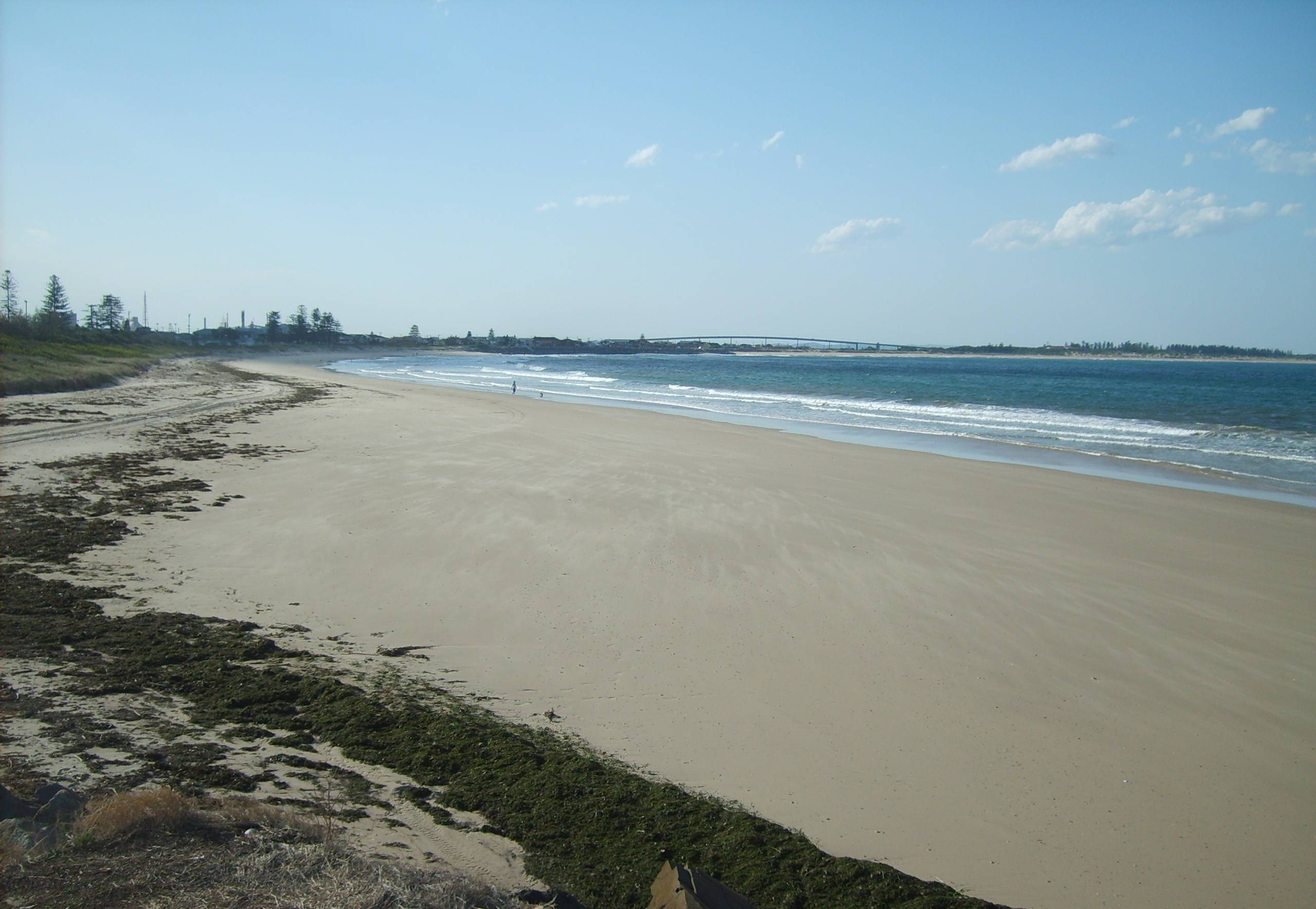 Stockton beach, New South Wales. Southern end of the beach taken from Shipwreck walk.